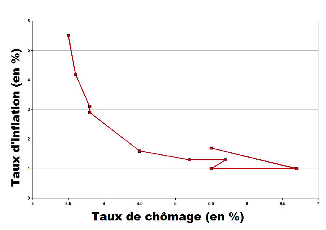 Relationship between the inflation rate and the unemployment rate (Philips Curve) in the US 1960-1969. Data from the U.S. Bureau Of Labor Statistics. Each dot is one year.